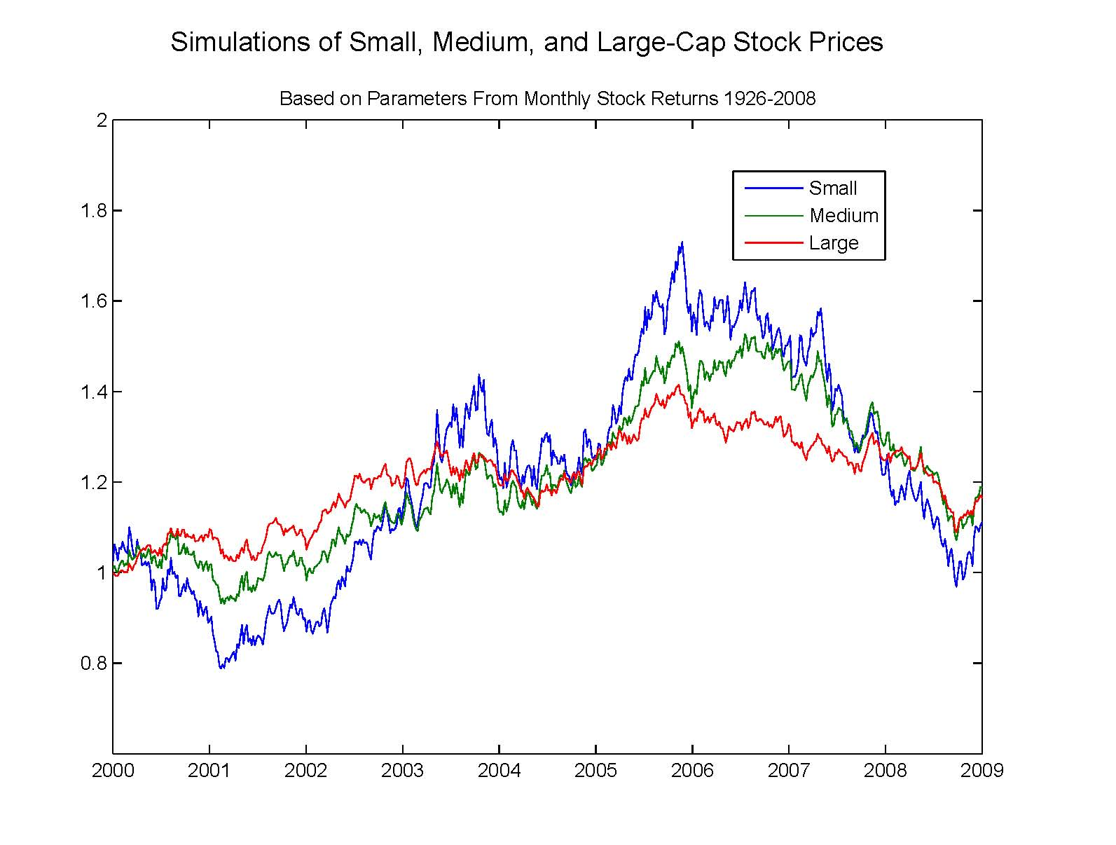 This image plots stock price simulations based on decile 1, 5, 10 monthly stock returns